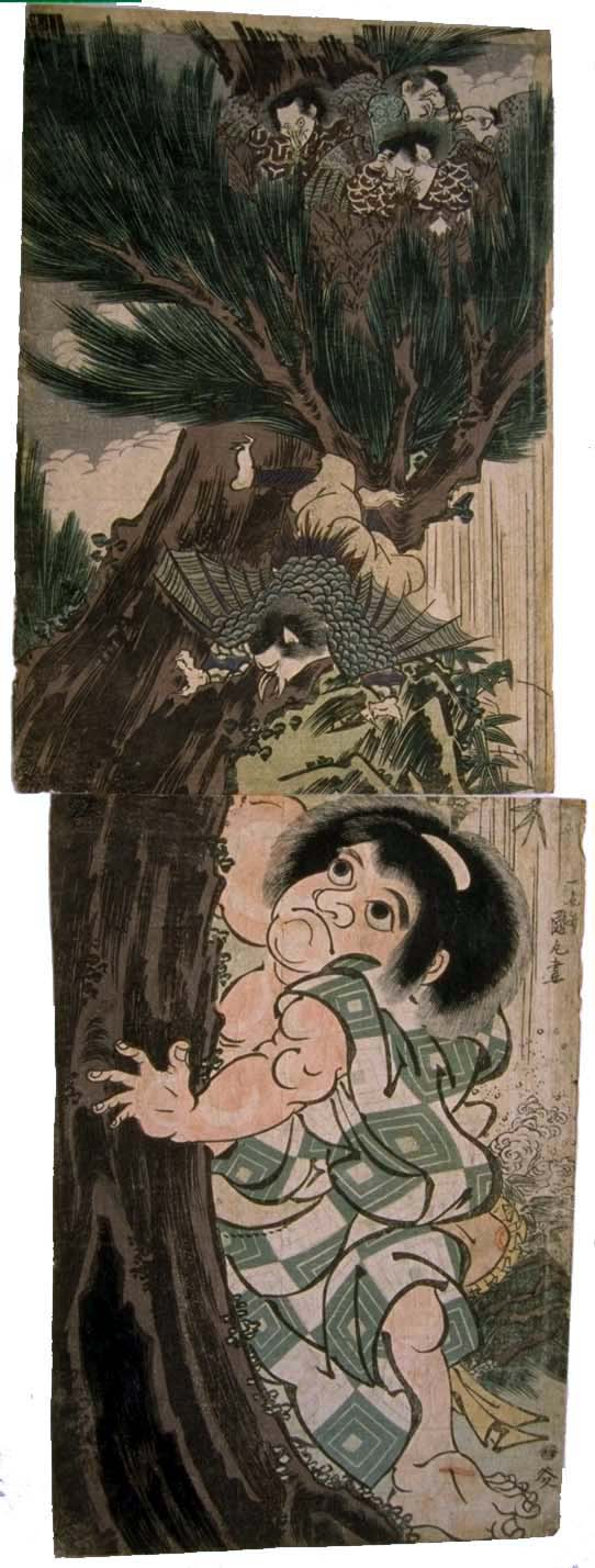 Folk-hero Kintarō climbing a tree to disturb a nest of small tengu.